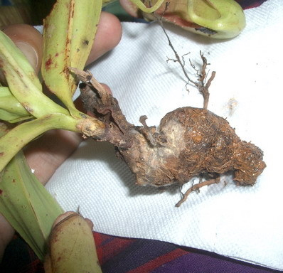 Roots of Nepenthes mirabilis from New Guinea